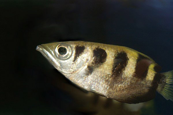 Archer Fish